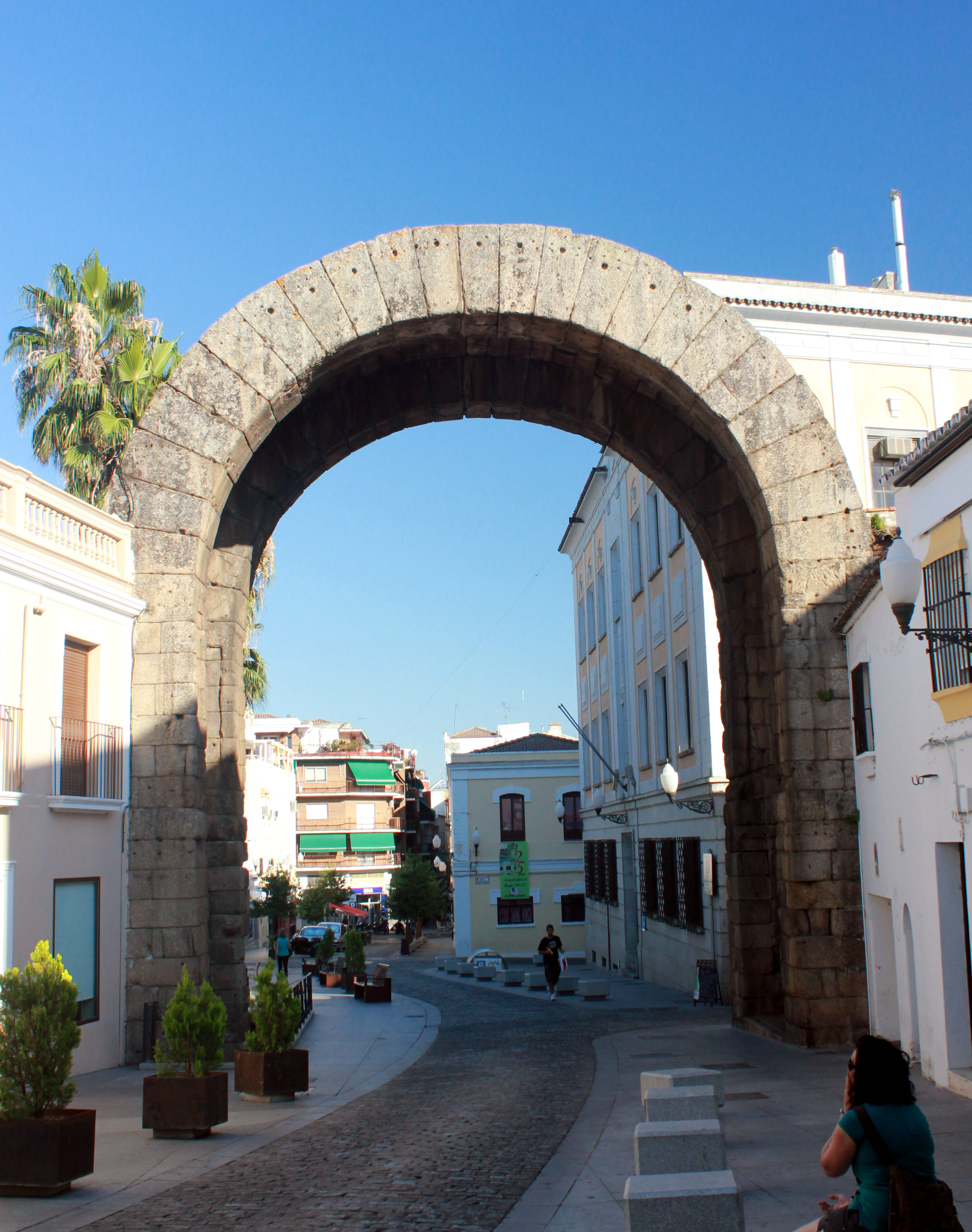 Arch of Trajan, Mérida, Spain.